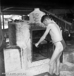 Australian War Memorial Caption: "Kuching, Sarawak. 1945-09-13. Private J. M. Curry, 2/10th Ordnance Workshops, who was cook for Australian Officers Prisoners of War in the Kuching Prisoner of War Camp. He is wearing the lap-lap issued to him by the Japanese, his sole clothing issue in two years."